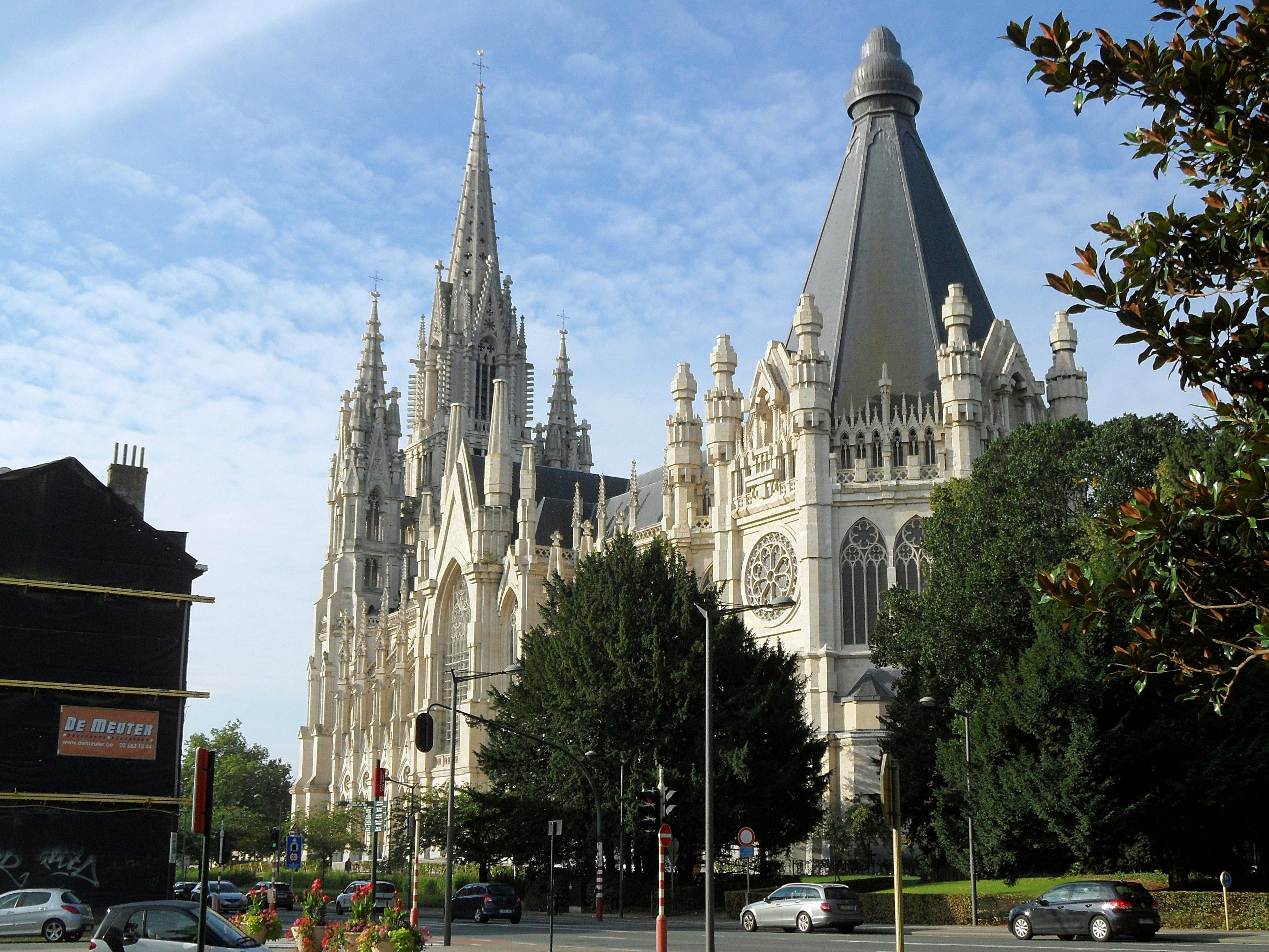 Brussels (Laeken): Notre Dame de Laeken/Onze-Lieve-Vrouwekerk, from north; August 2015